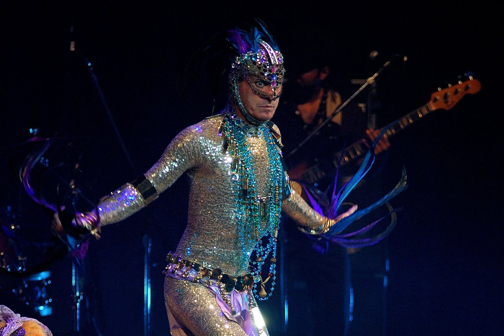 Ney Matogrosso